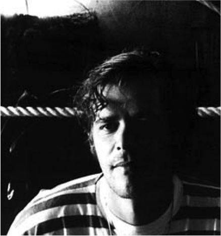 Black and white photograph of Wayne Barker, the artist. Portrait, face in half shadow